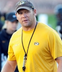 Barry Odom, the head football coach of the University of Missouri Tigers.